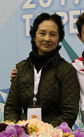 Guo Yuzhu, Zhao Pengkun and Xi Hongyan at the 2017 Junior World Championships